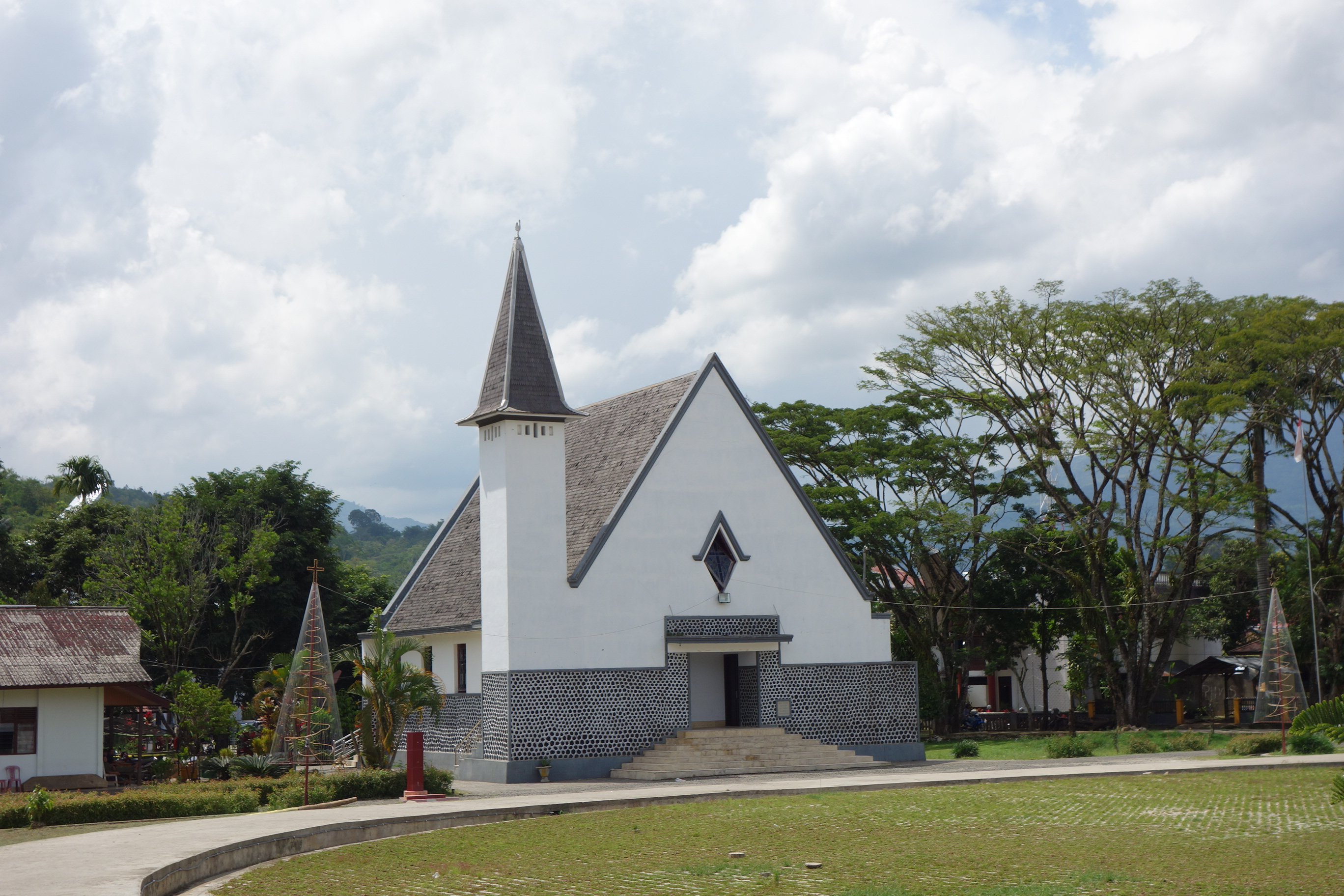 Main cathedral in the town of Rantepao, province of South Sulawesi, Indonesia